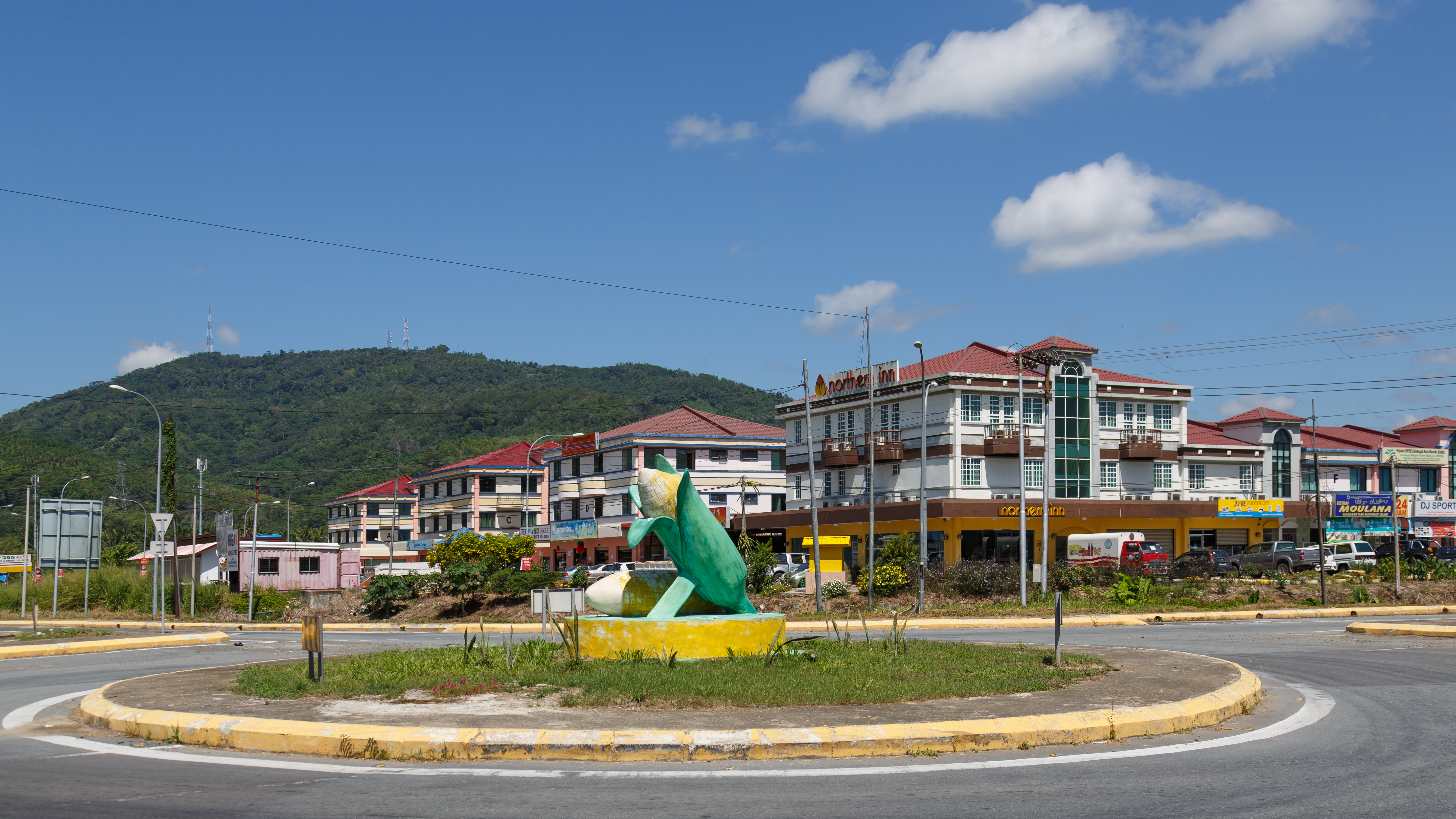 Langkon, Sabah: The roundabout with a sculpture of a corncob in front of Langkon Commercial Center